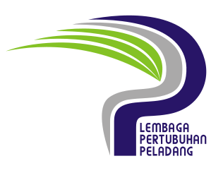 This is the logo of Farmer's Organization Authority, Malaysia.